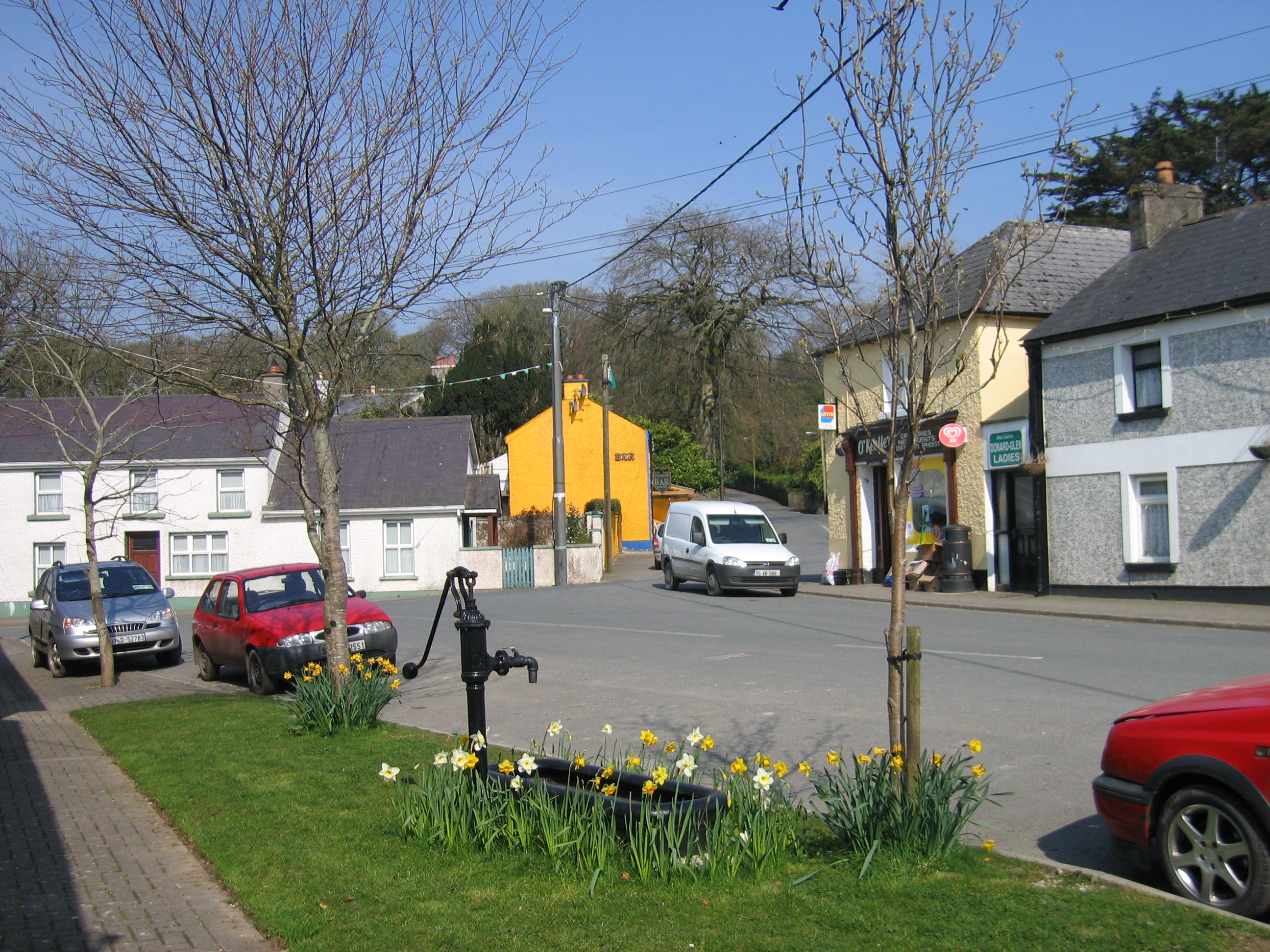 Donard, County Wicklow The village pump in Donard